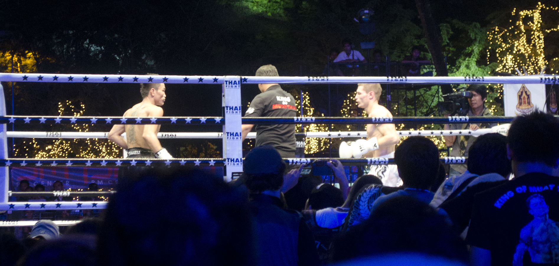 Singmanee vs Andrei